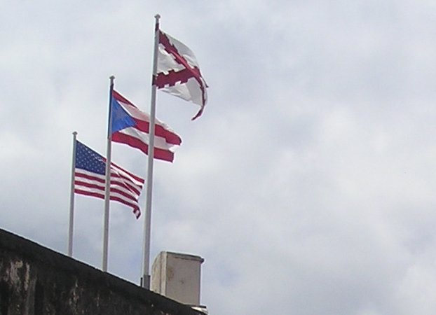 Puertorican flags at Fort San Cristóbal, in Old San Juan. On the left the flag of the United States, in the middle the flag of Puerto Rico, on the right the Spanish colonial flag (Burgundy Colonial Flag).